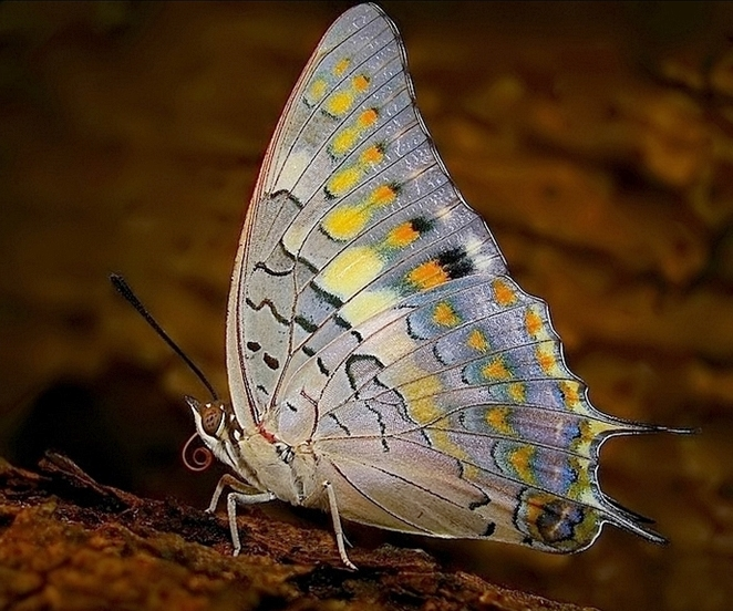 A Black Rajah seen here sitting on an Indian Beech, Millettia pinnata, trunk in Mahim Nature Park, Mumbai. It was observed feeding on the tree sap.